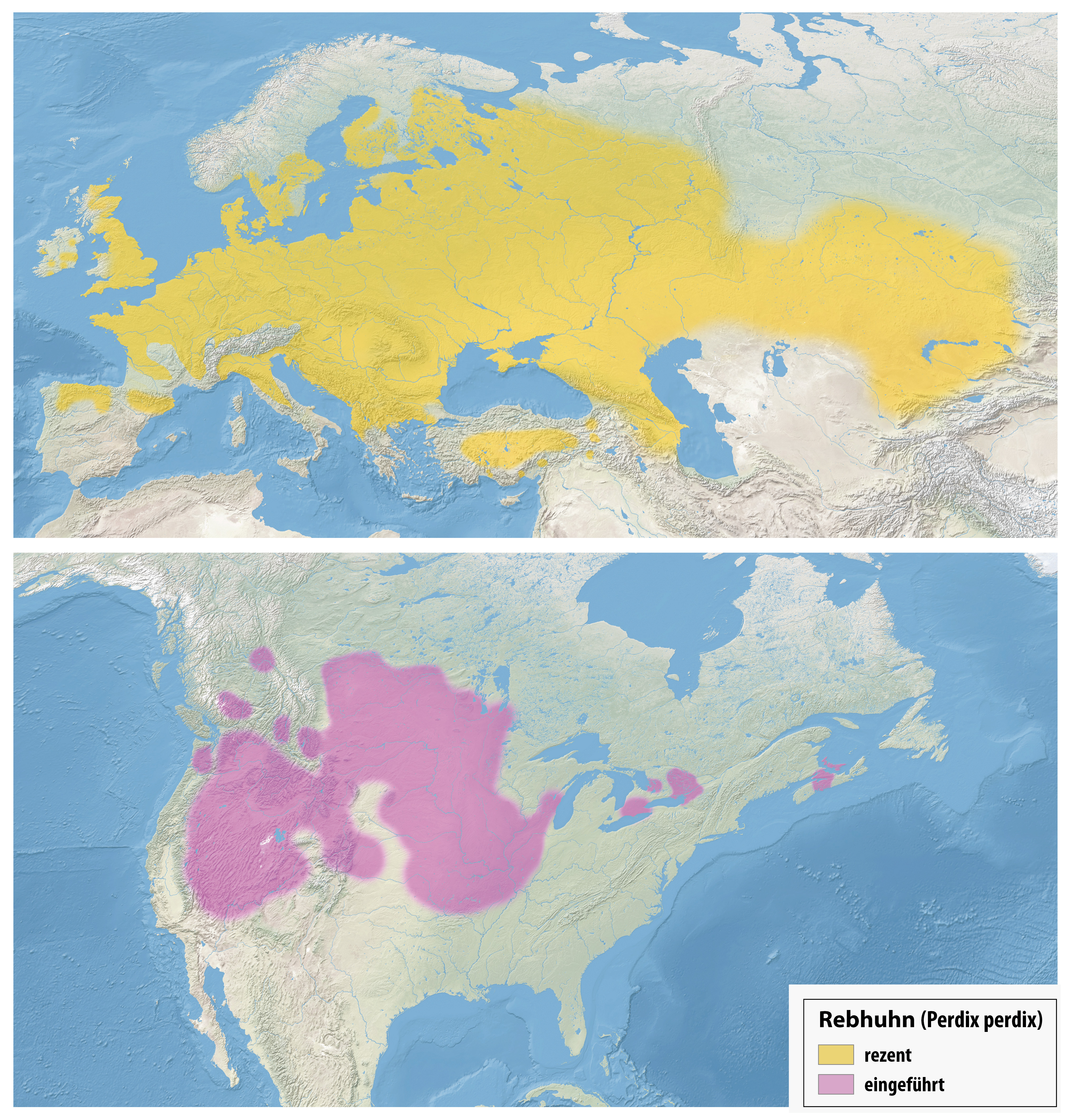 Distribution map of the Grey Partridge (Perdix perdix)